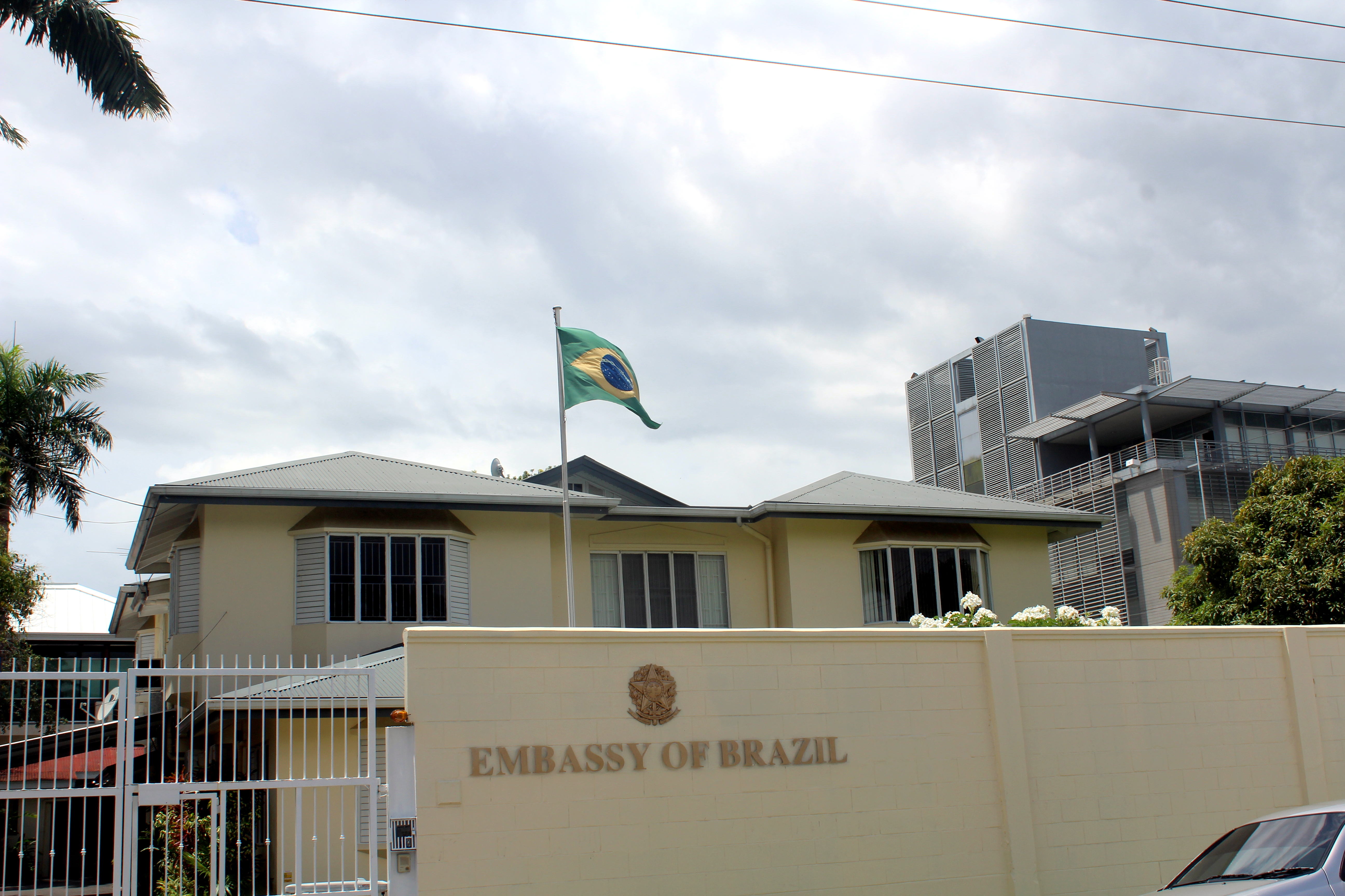 Brazilian Embassy in Port of Spain